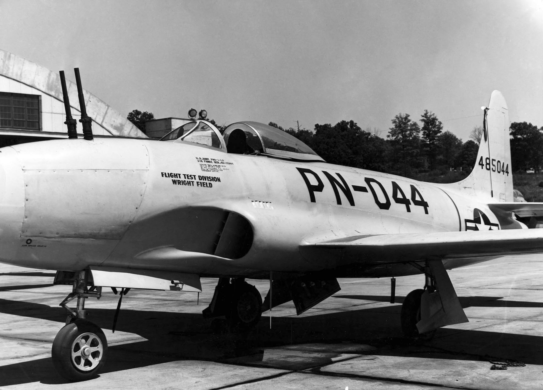 Lockheed F=80 with twin 12.7mm machineguns in oblique mount, similar to WW2 German 'schraege musik' mount, to test ability to attack bombers from below